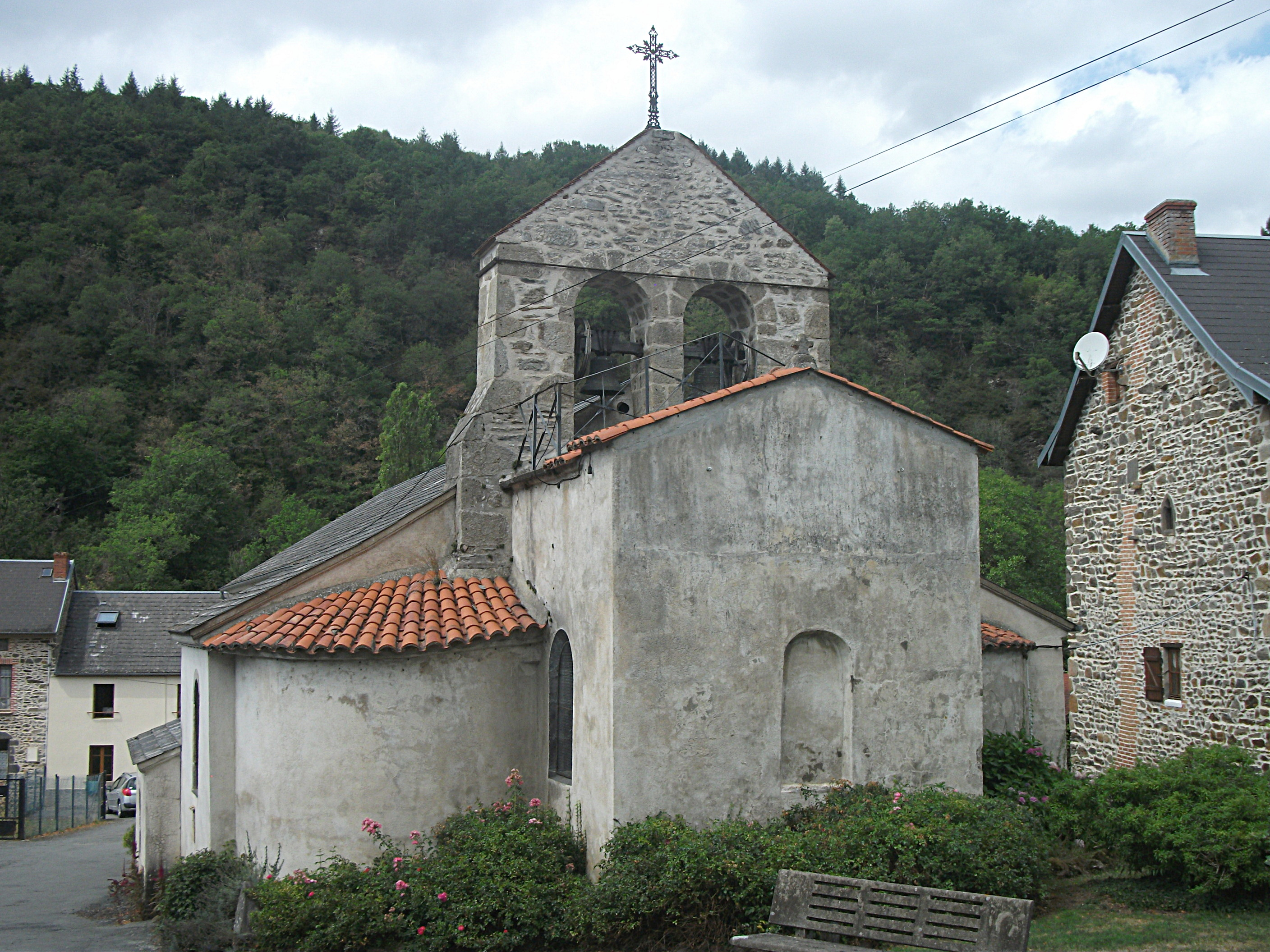 Church of Lisseuil, Puy-de-Dôme, Auvergne-Rhône-Alpes, France. [18899]